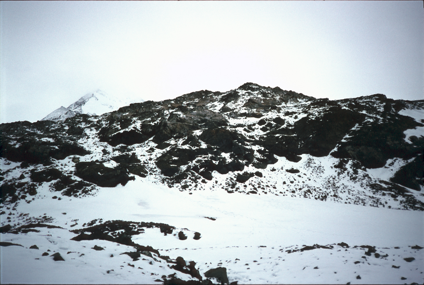 Mount Cardinall is a conical mountain, 675 m, lying close southwest of Mount Taylor and overlooking the northeast head of Duse Bay, at the northeast end of Antarctic Peninsula